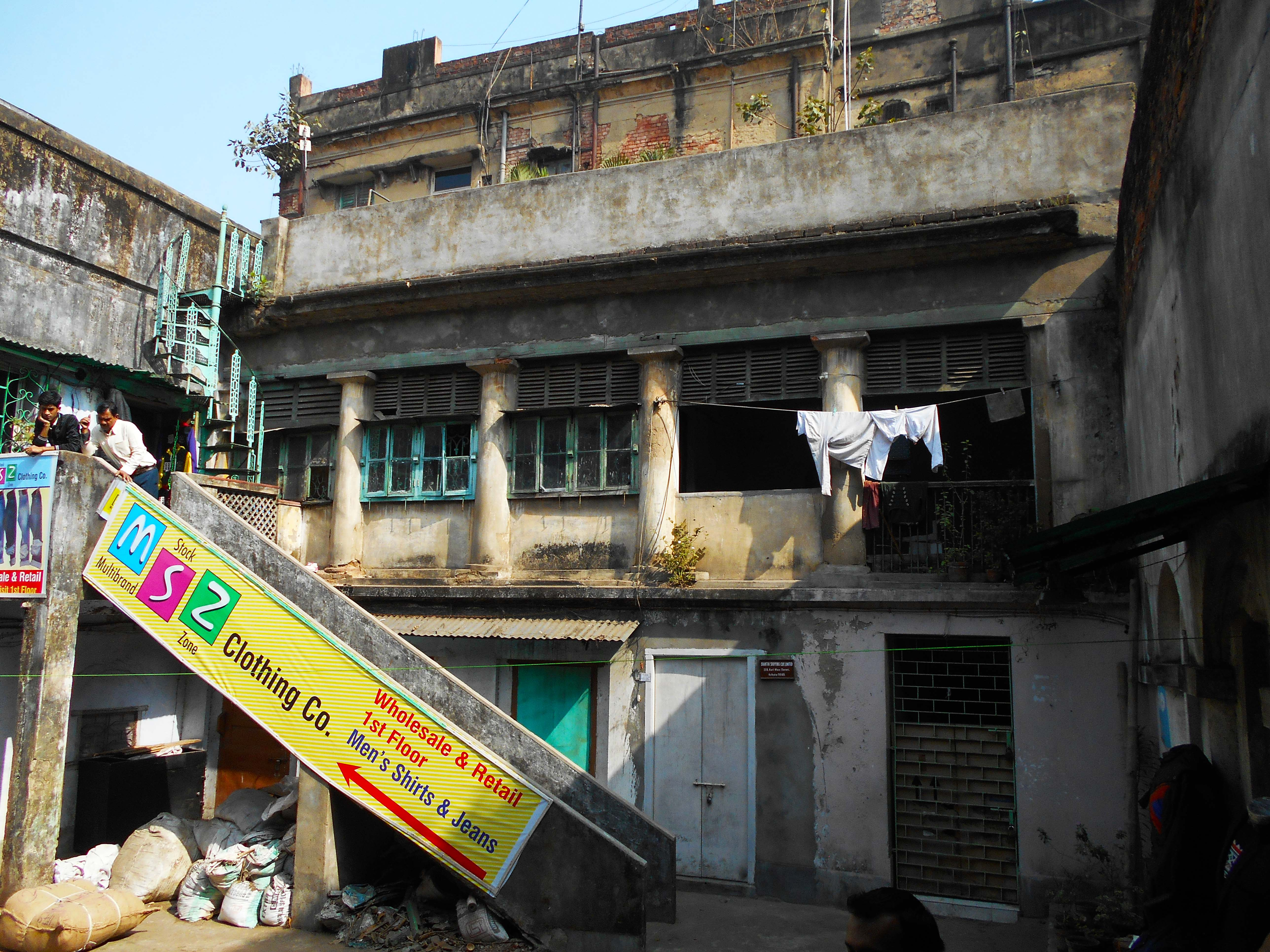 Photo has been taken during the "Wikipedia Takes Kolkata V" Date 24th January 2016, inside Residence of Micheal Madhusudhan Dutt in Khidirpur.